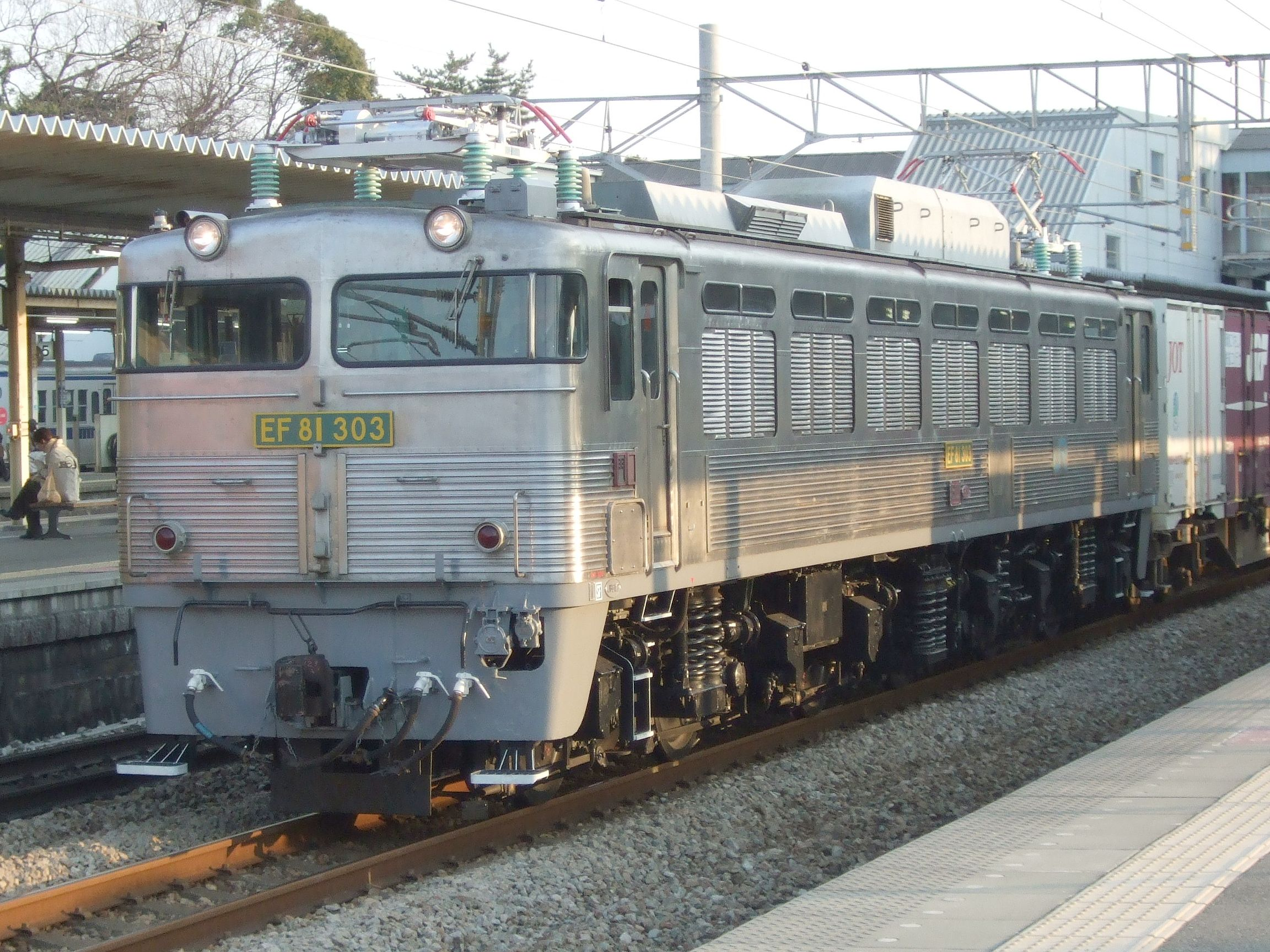 JR Freight Class EF81-300 electric locomotive EF81 303 passing through Kashii Station in Kyushu